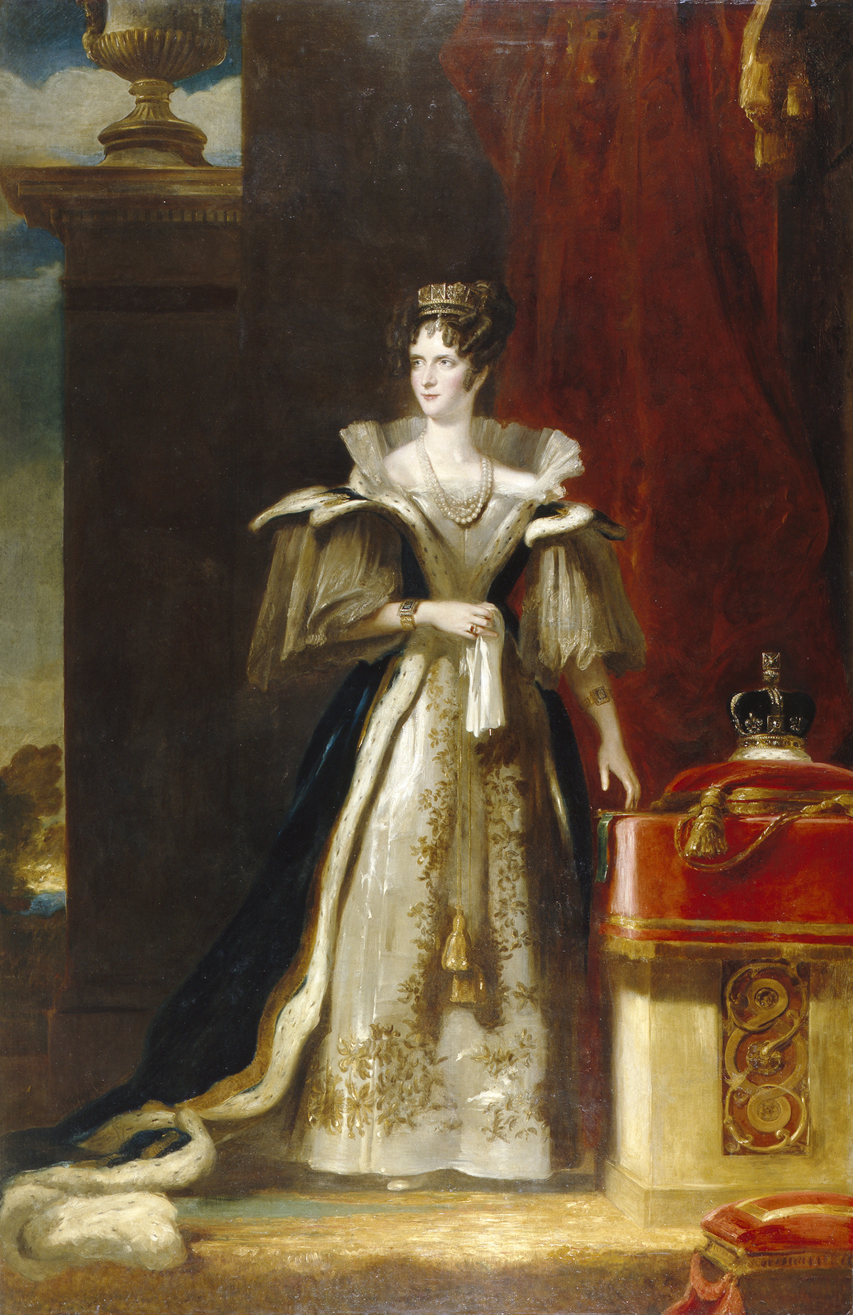 Adelaide of Saxe-Meiningen (1792-1849), queen of the United Kingdom